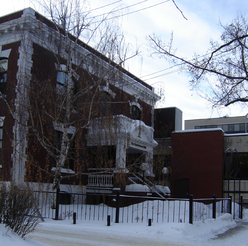 Municipal Heritage Properties:Saskatoon Club 1912 Central Business District , Core Neighbourhoods SDA, Saskatoon, Saskatchewan, Canada